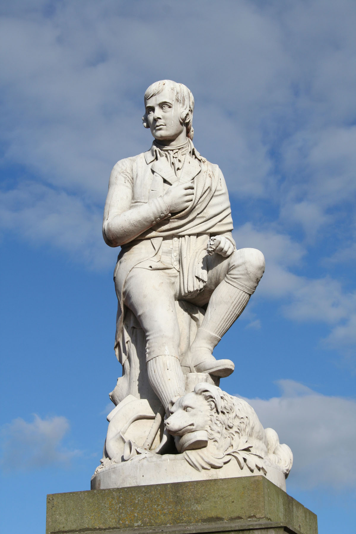 Statue of Robert Burns in Dumfries town centre. Taken by Ron Waller. Sculpture by Amelia Hill.